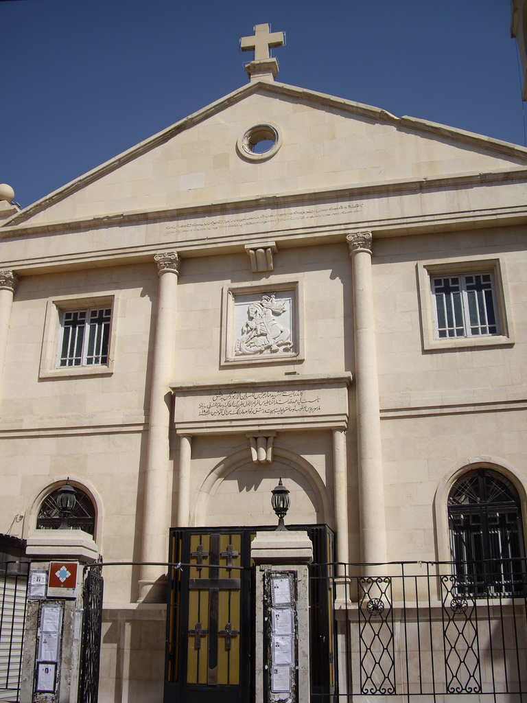 Saint George Syrian Orthodox Cathedral, Damascus